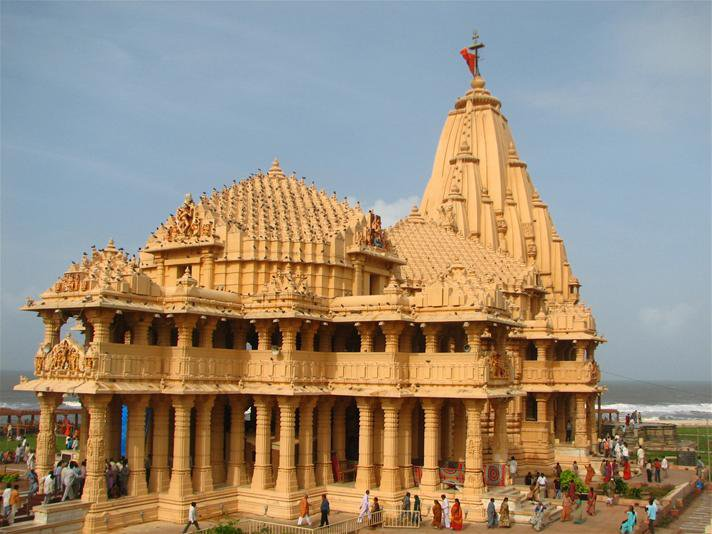 Somnath Temple 2010